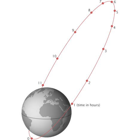 Molniya Orbit around the Earth with time marks